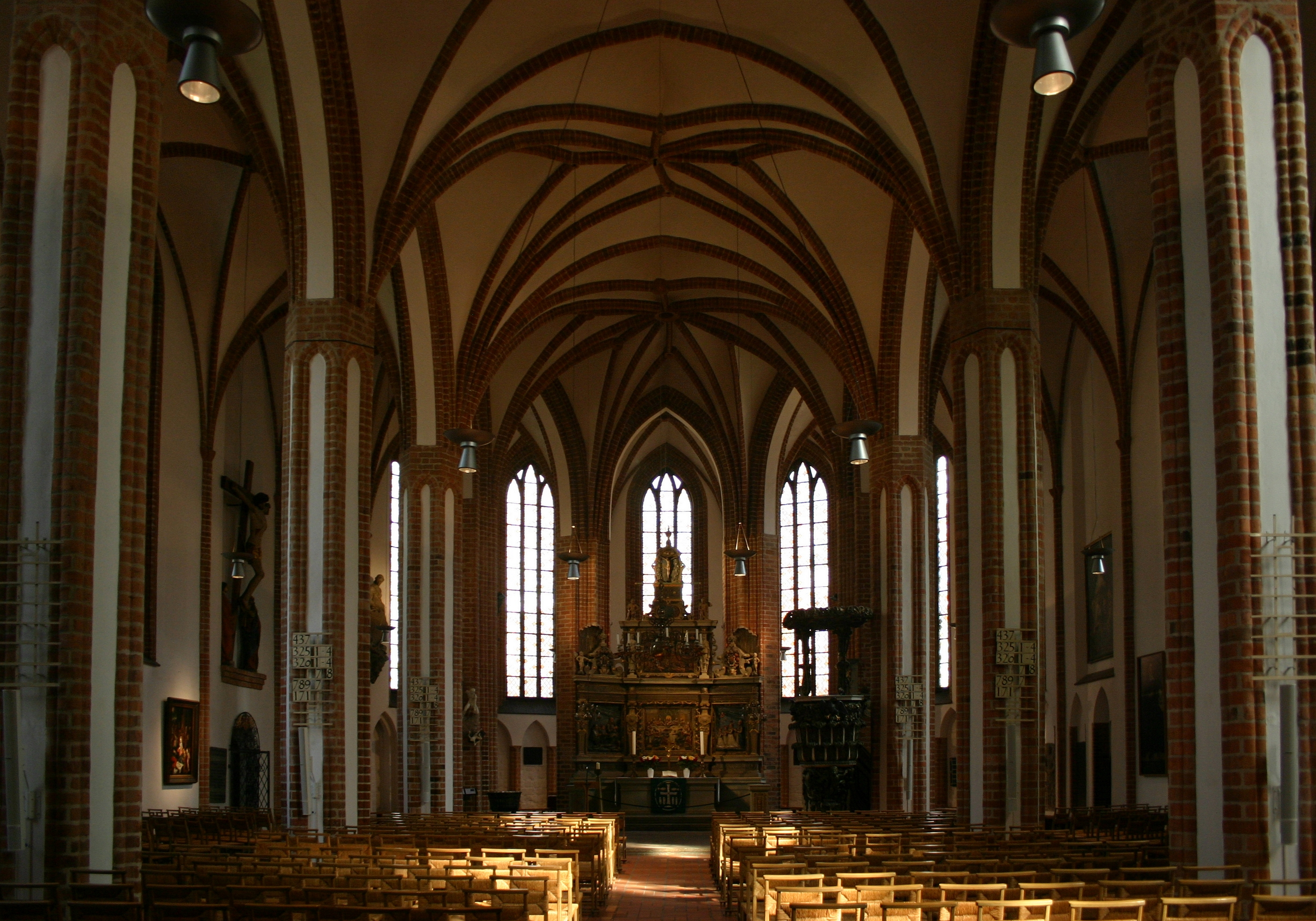 Inside view of St. Nicholas in Berlin-Spandau